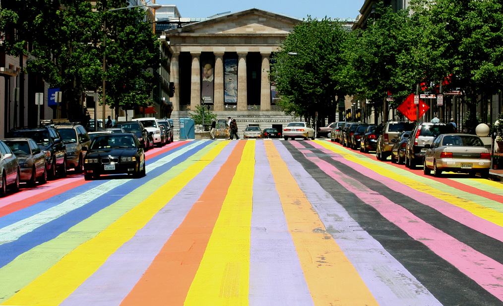 In May 1987, as part of a two-day joint fundraiser for the Corcoran School of Art and Washington Project for the Arts in honor of Gene Davis, an important artist of the color field movement and former Corcoran faculty member, The Corcoran and the American Art Museum coordinated efforts to paint a giant stripe on 8th St. NW between D and E Sts designed by Mokha Laget, long time studio assistant to Gene Davis. Now 20 years later, May 2007, the DC Commission on the Arts and Humanities in collaboration with the Corcoran have recreated the 1987 project as an homage to Gene Davis with Mokha Laget as the lead artist for this project once again. Ms. Laget has created an alternative scheme much closer in color, rhythm, musicality, and lyricism to Gene Davis paintings.